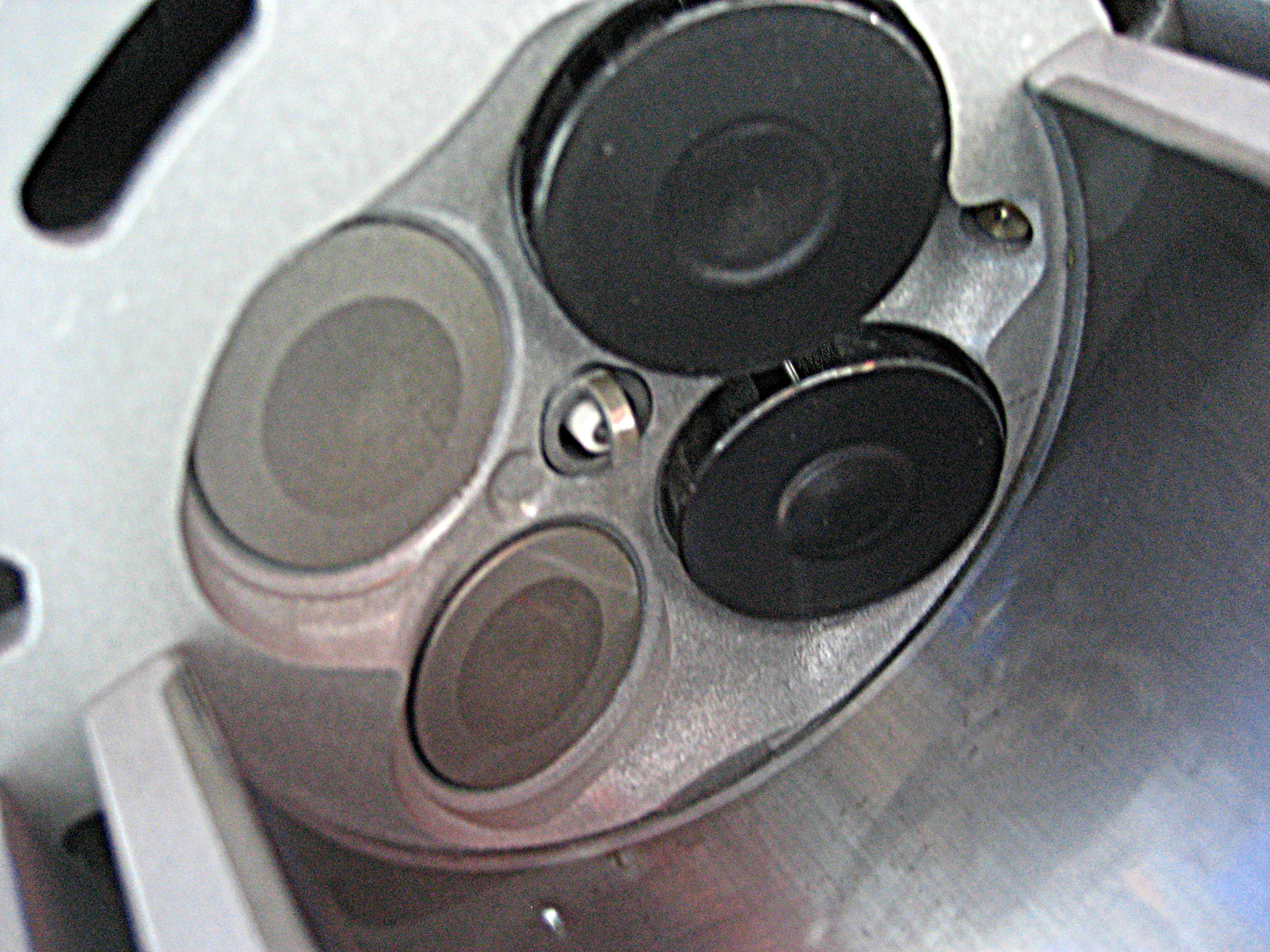 3.5 EcoBoost Demo engine, combustion chamber.